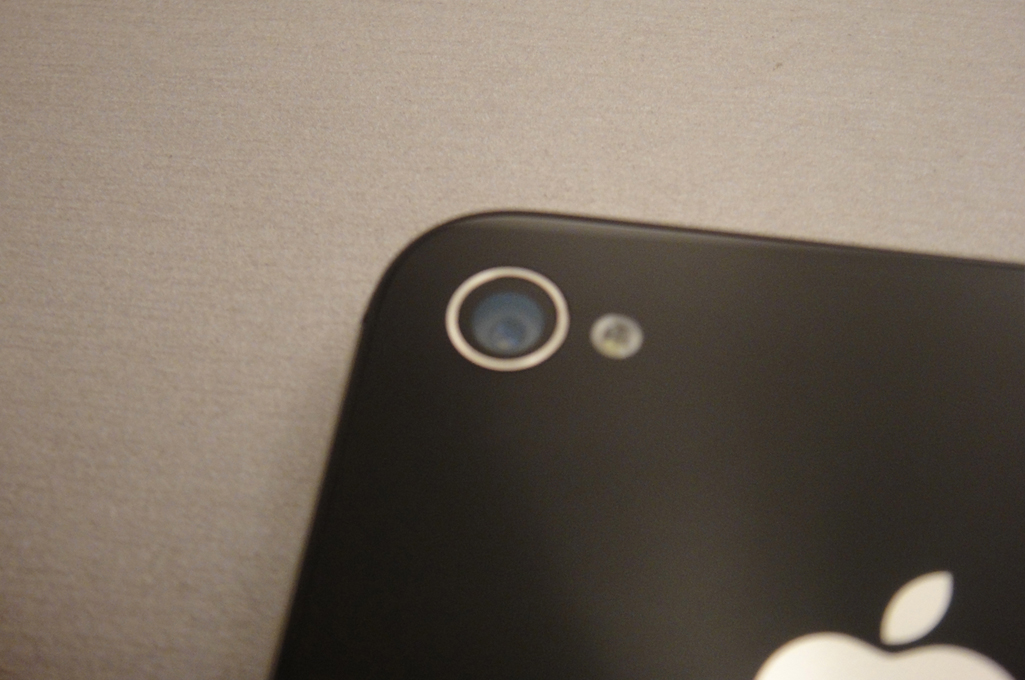 Cropped version of the iPhone 4S camera